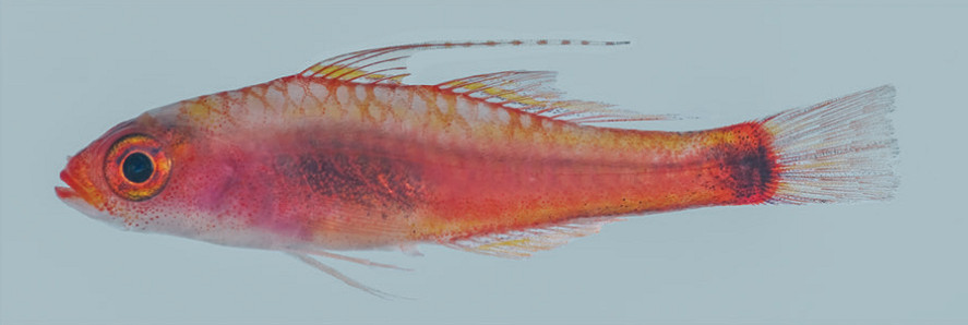 Trimma nasa female 19.5 mm, Kepotsol Island, Raja Ampat